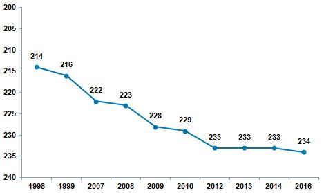 Graphical representation of the historic year-end Elo ratings for the Northern Mariana Islands national football team